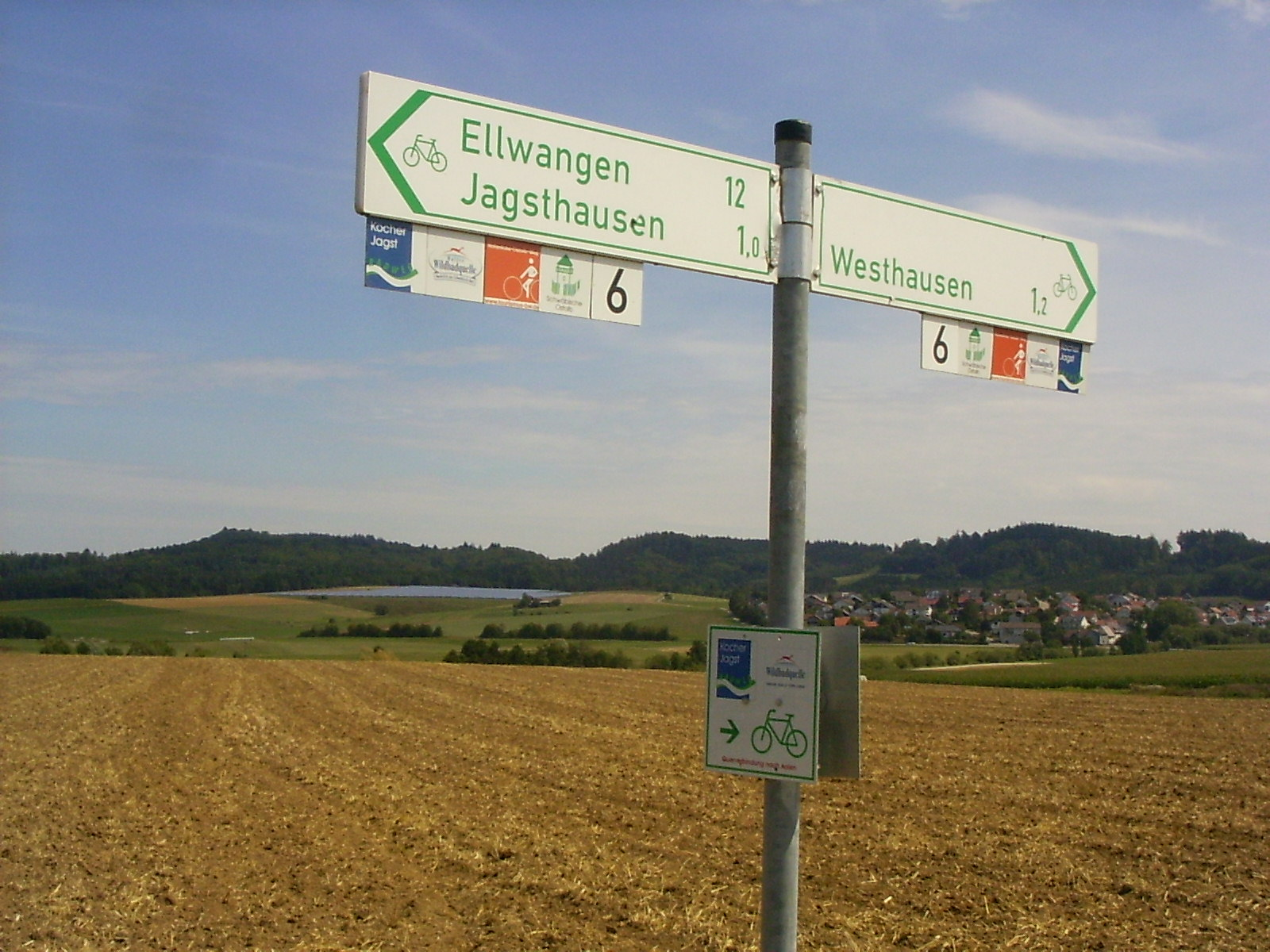 Cycling route signs near Westhausen. From this point a shortcut to Aalen is possible, which shortens the Kocher-Jagst-cycleroute by 23 kilometers.